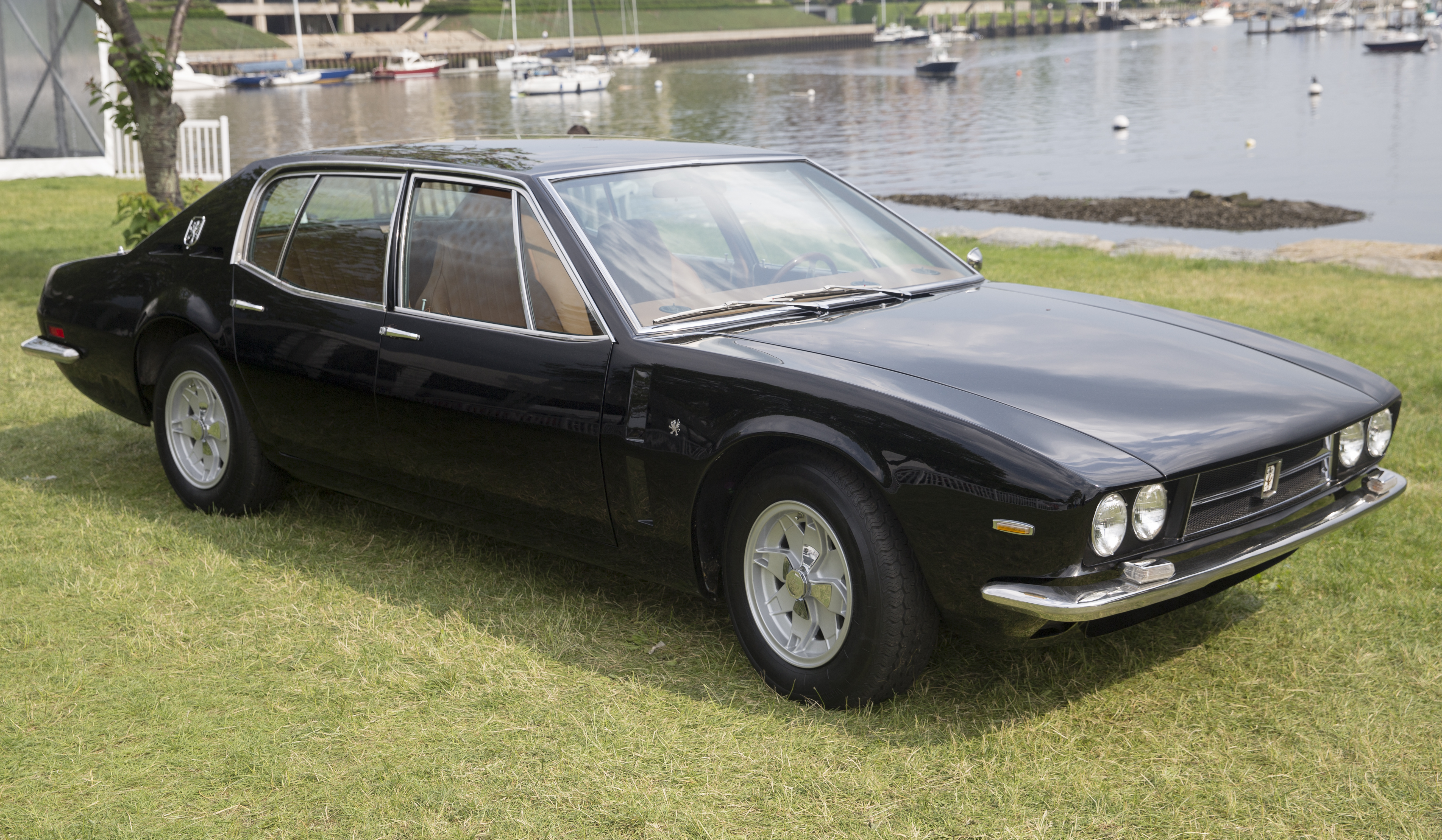 1971 Iso Fidia in Black over Cognac leather at the 2019 Greenwich Concours d'Élegance. One of 15 built in 1971, has received a few intelligent mods such as a hidden modern stereo and an aluminium radiator.